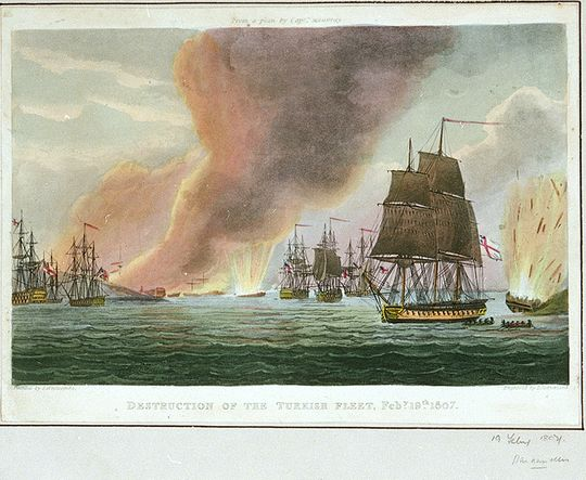 Destruction of the Turkish Fleet, Feby, 19th, 1807